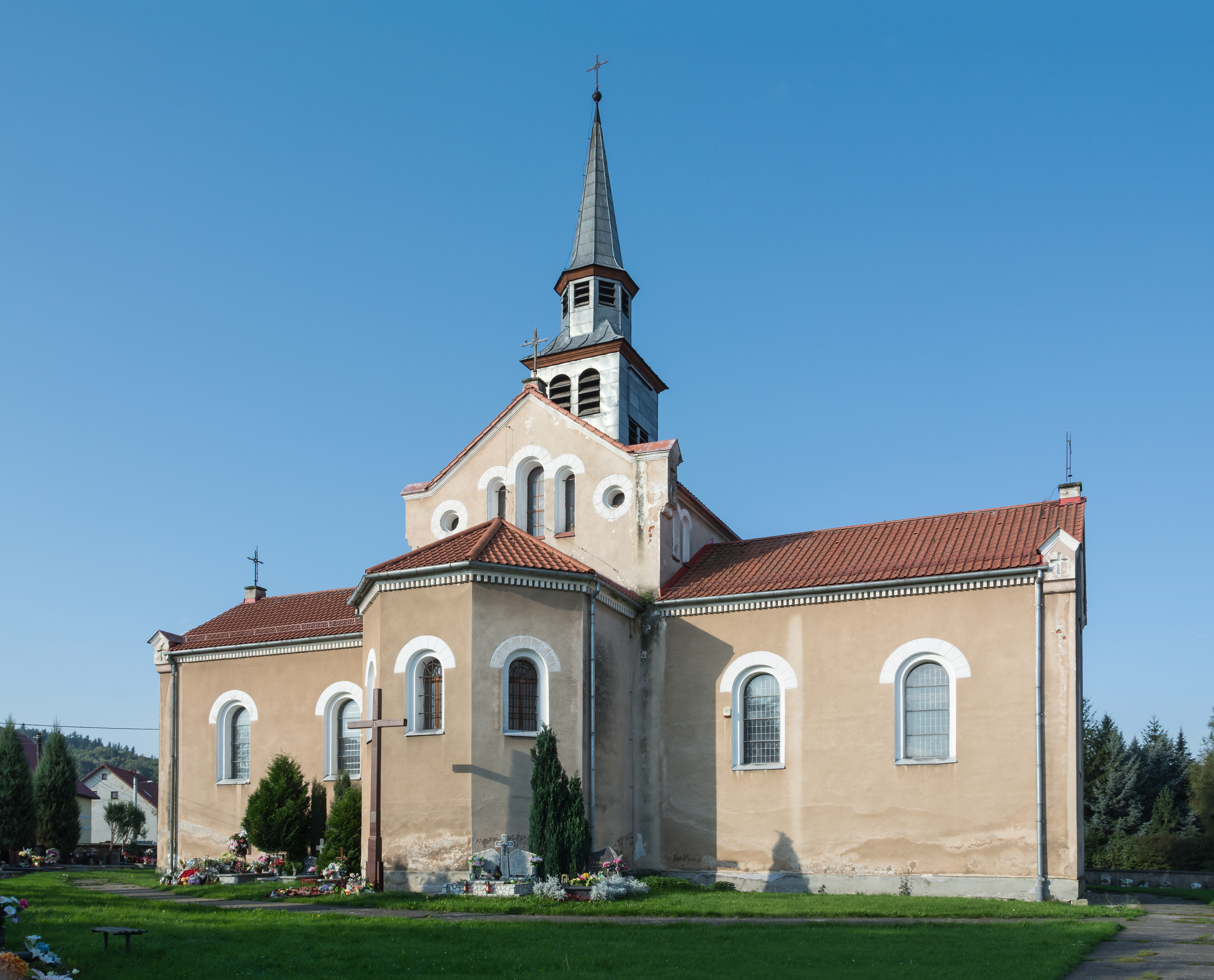 Church of St. Catherine in Ożary Ta fotografia przedstawia zabytek wpisany do rejestru zabytków pod numerem ID 599970